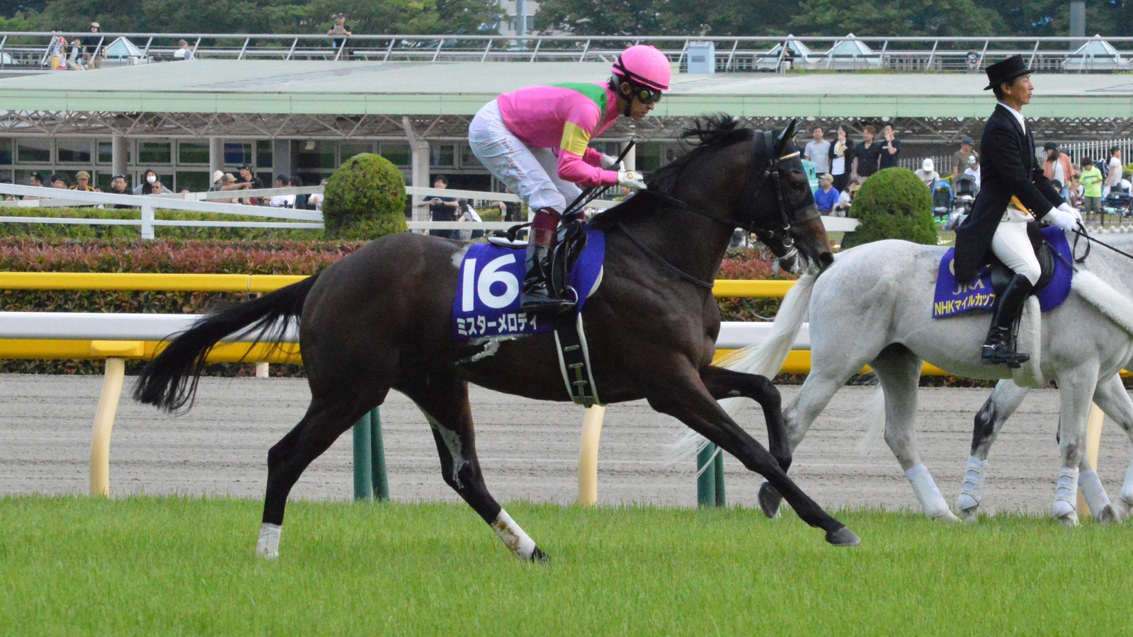 Japanese race horse Mr Melody at Tokyo racecourse. Tokyo (JPN) 6 May 2018 NHK Mile Cup (Grade 1) (3yo Colts & Fillies) (Turf) 1m Firm RankHorse NameOddsAgeWgtJockeyTrainer1stKeiai Nautique (JPN)118/10C39-0Yusuke FujiokaOsamu Hirata4thMr Melody (USA)137/10C39-0Yuichi FukunagaHideaki FujiwaraOthers are omitted. (18 horses entered in a race.)